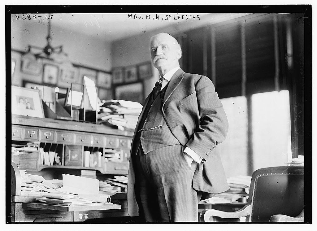 Bain News Service,, publisher. Maj. Richard H. Sylvester circa 1913 [no date recorded on caption card] 1 negative : glass ; 5 x 7 in. or smaller. Notes: Title from unverified data provided by the Bain News Service on the negatives or caption cards. Forms part of: George Grantham Bain Collection (Library of Congress). Format: Glass negatives. Repository: Library of Congress, Prints and Photographs Division, Washington, D.C. 20540 USA, General information about the Bain Collection is available at Persistent URL: Call Number: LC-B2- 2683-15 Comments